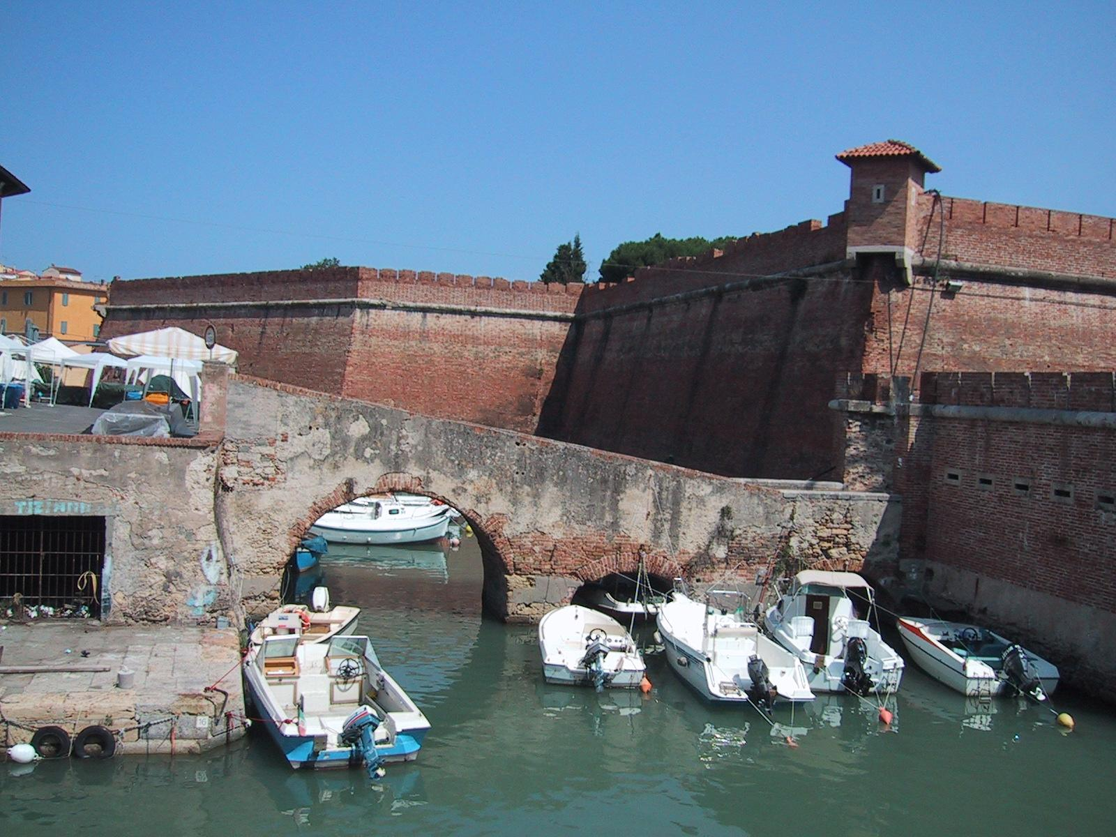 Fortezza Nuova, Livorno, Tuscany, Italy